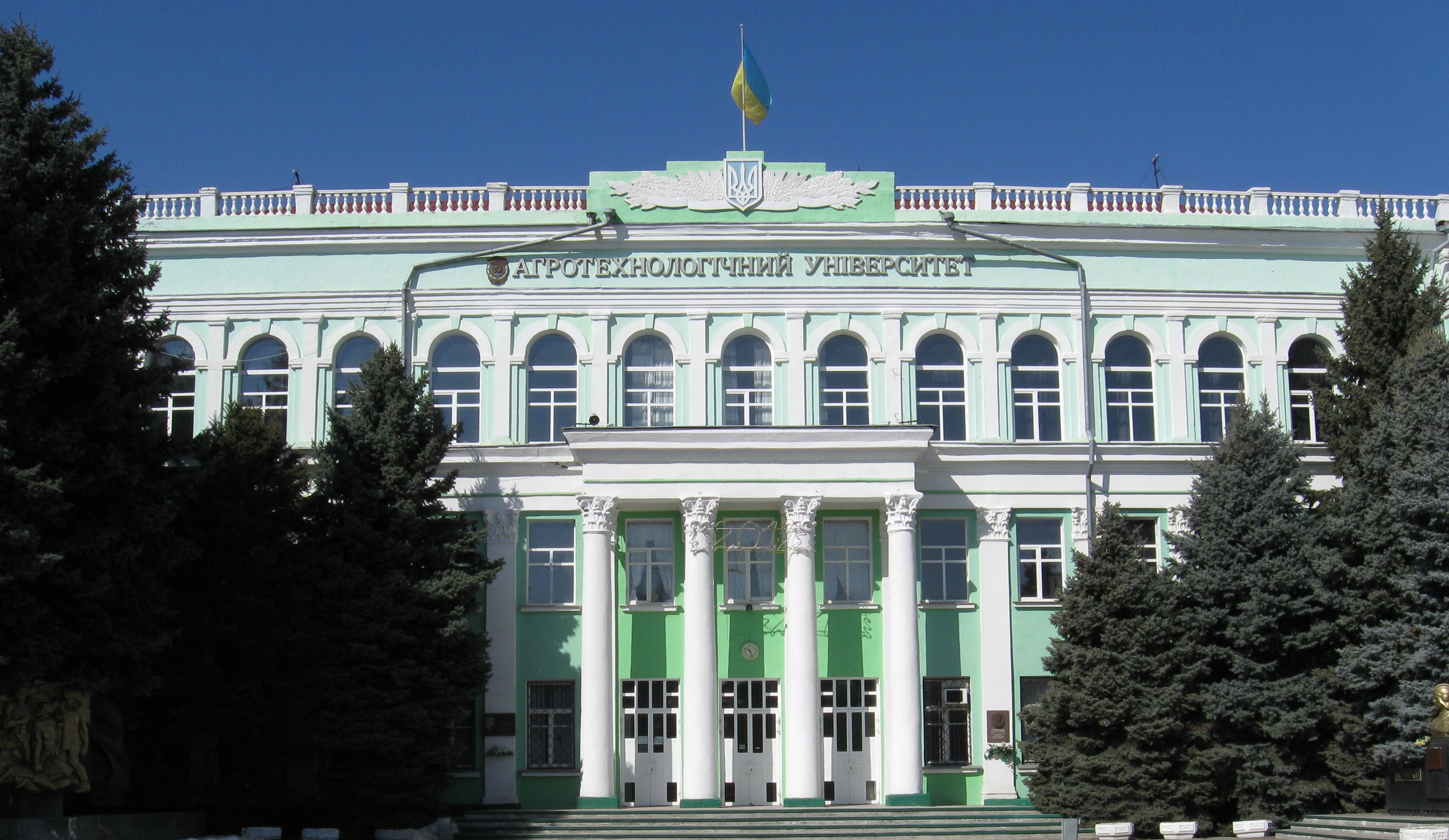 Main building of Tavrian State Agrotechnological University (Melitopol)